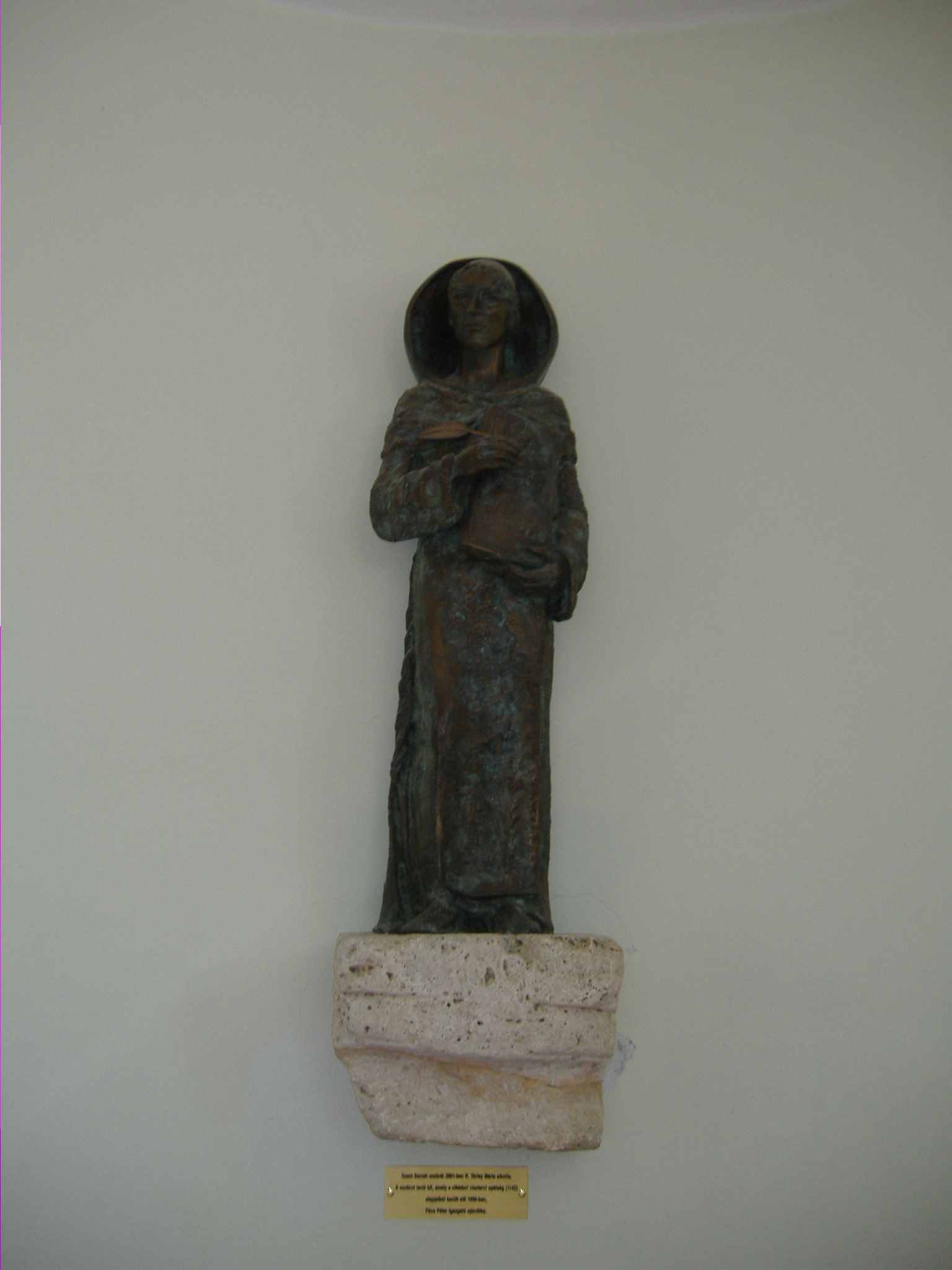 Statue of Saint Bernard of Clairvaux in Nagy Lajos Highschhool